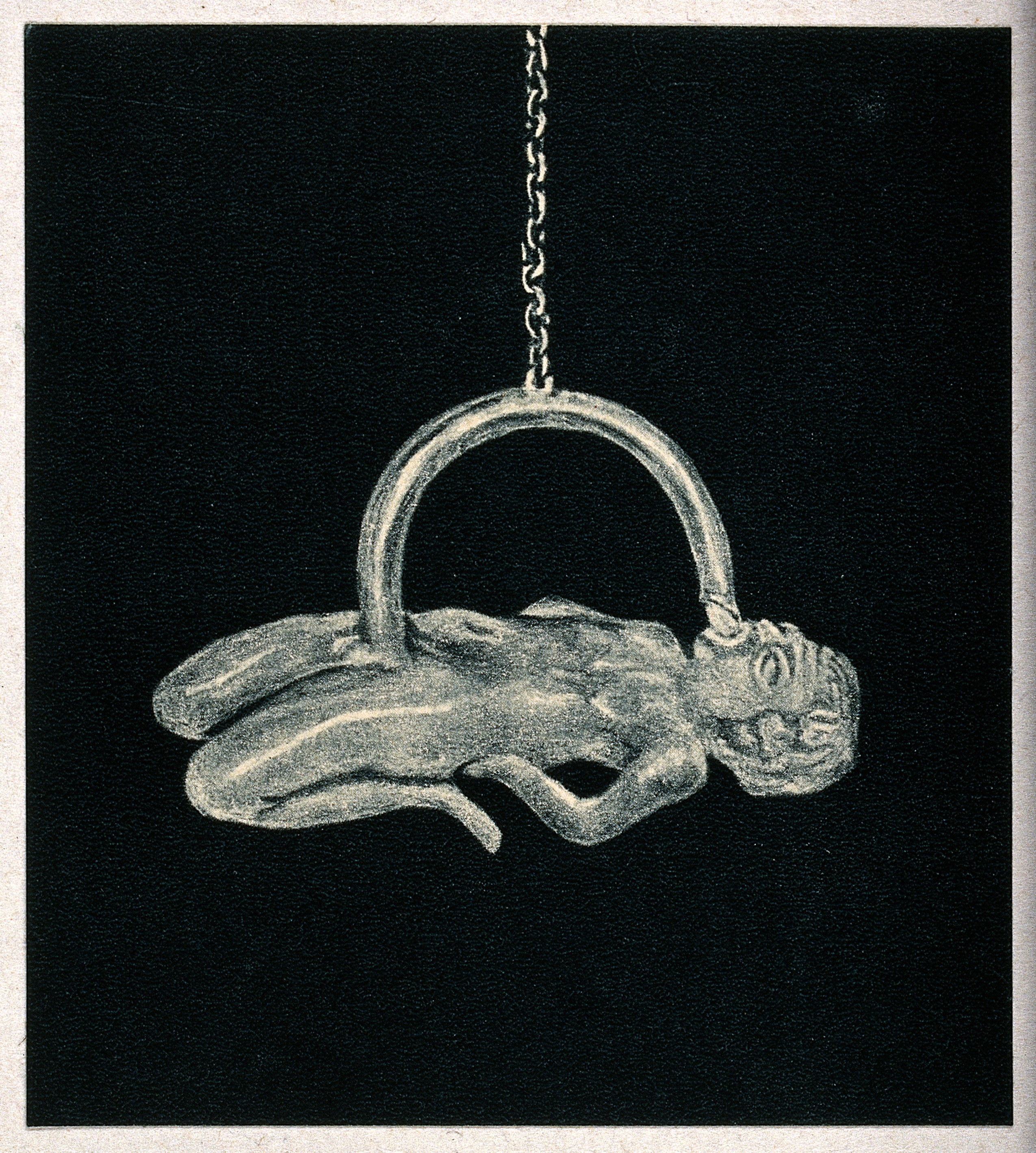 A figure in the form of a phallic motif. Photomechanical process. Iconographic Collections